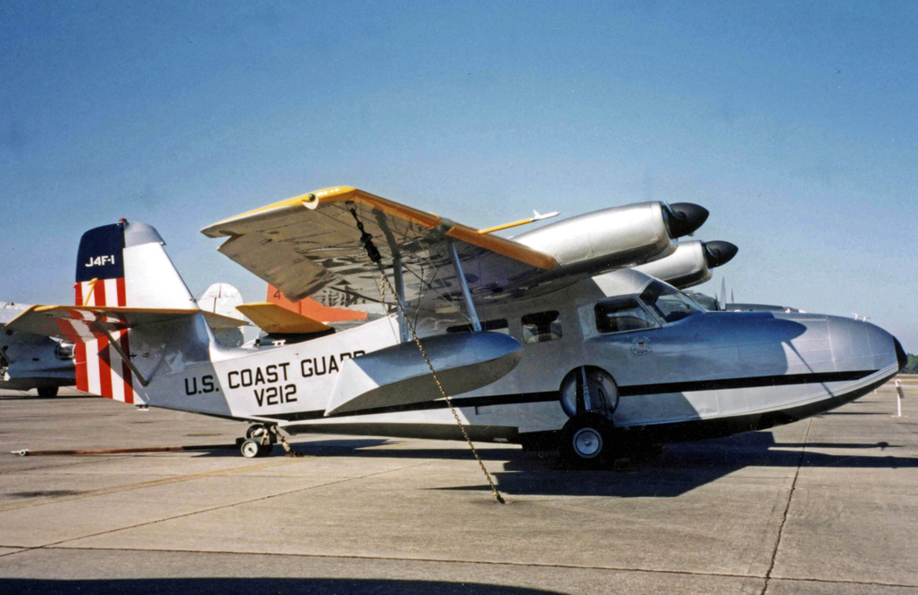 Grumman J4F-1 (G44) Widgeon of the United States Coast Guard preserved at the NMNA Pensacola NAS, Florida